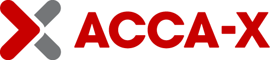 ACCA-X logo